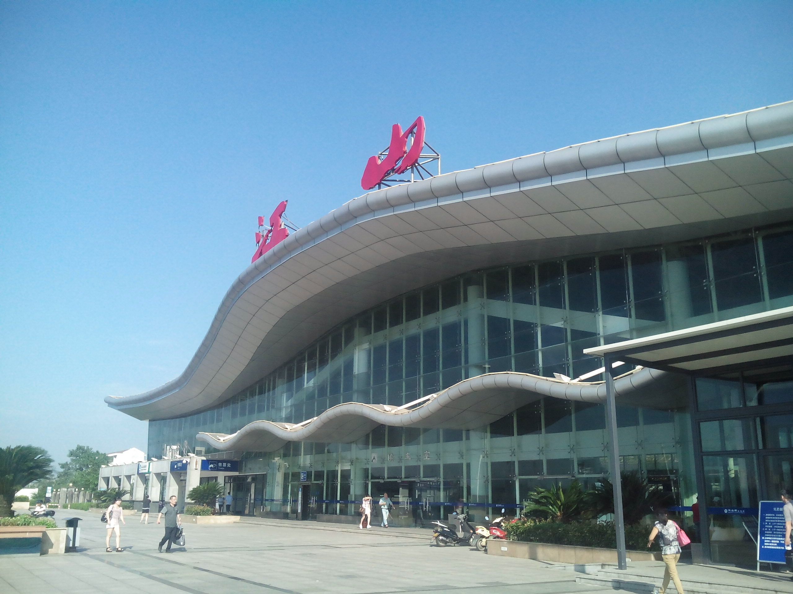 201507 Station building of Jiangshan Station